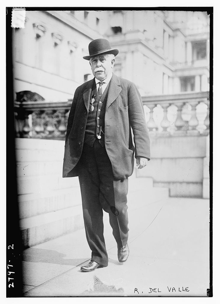 Bain News Service,, publisher. Reginald F. Del Valle [between ca. 1910 and ca. 1915] 1 negative : glass ; 5 x 7 in. or smaller. Notes: Title from unverified data provided by the Bain News Service on the negatives or caption cards. Forms part of: George Grantham Bain Collection (Library of Congress). Format: Glass negatives. Repository: Library of Congress, Prints and Photographs Division, Washington, D.C. 20540 USA, General information about the Bain Collection is available at Persistent URL: Call Number: LC-B2- 2797-2